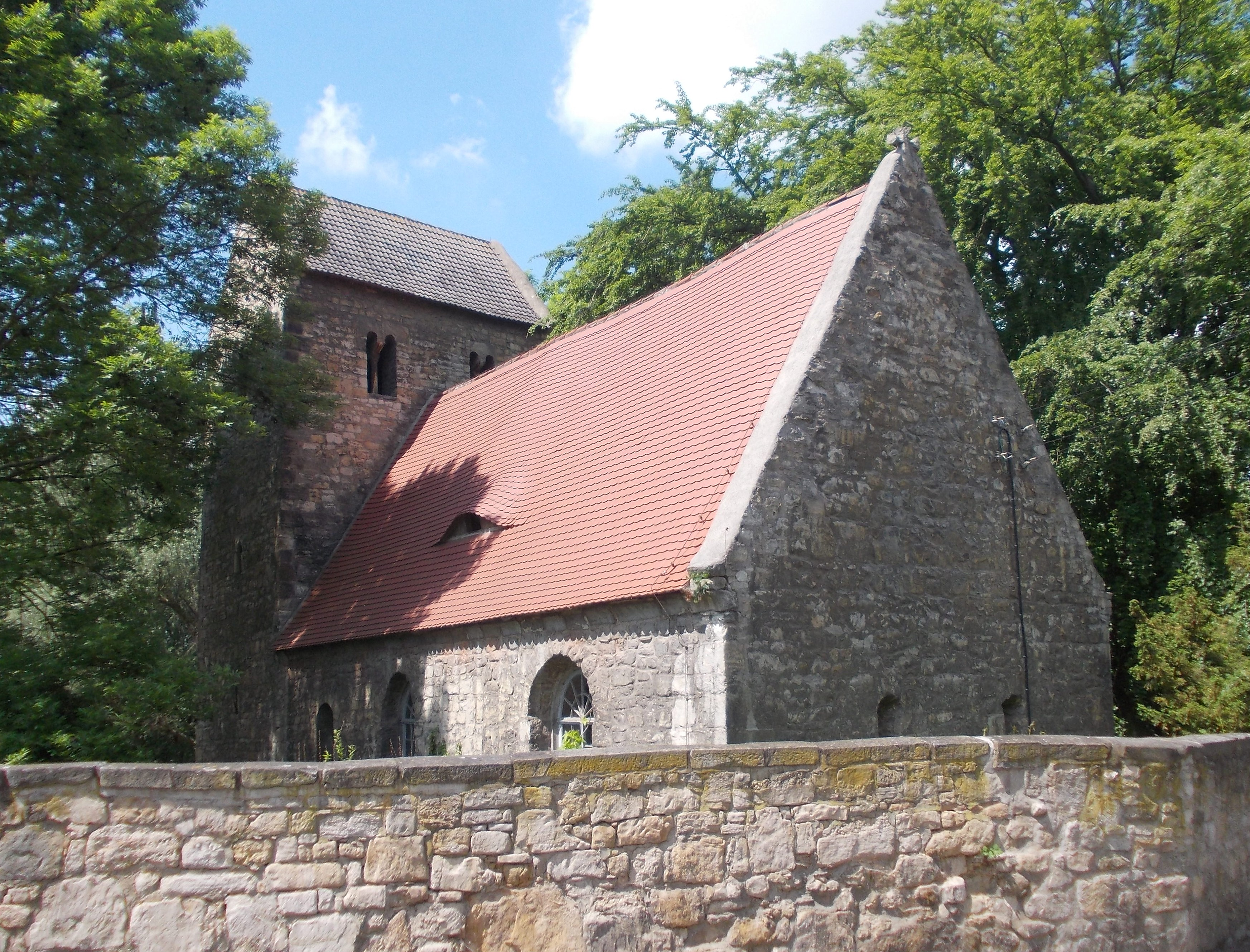 St. Mary's Church in Köllme (Salzatal, district: Saalekreis, Saxony-Anhalt)